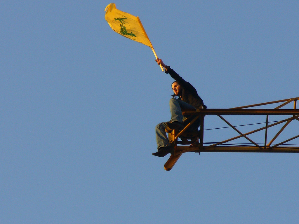 The flag of the hizbollah (the party of God) waving after the war on Israel in June 2006.